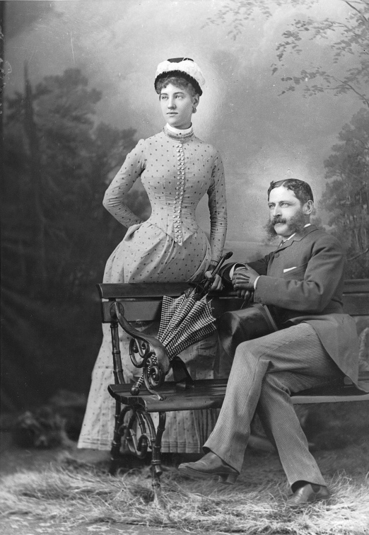 Photograph Mr. and Mrs. Baumgarten, Montreal, QC, 1885 Wm. Notman & Son 1885, 19th century Silver salts on glass - Gelatin dry plate process 17 x 12 cm Purchase from Associated Screen News Ltd. II-77431 © McCord Museum